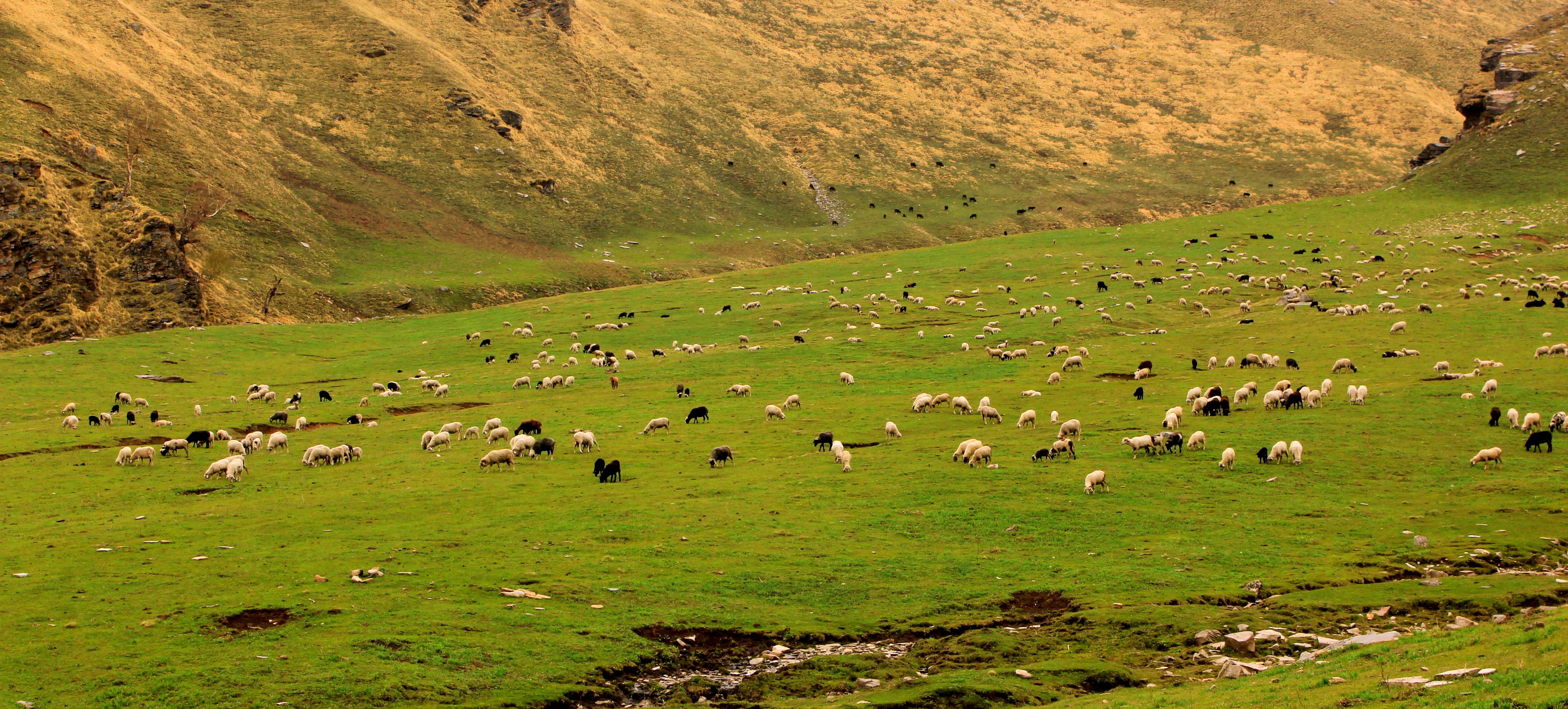 Dyara Thach- Grassland of Pabbar Valley Chandernahan region the origin of Pabbar river. Rohru Himachal Pradesh